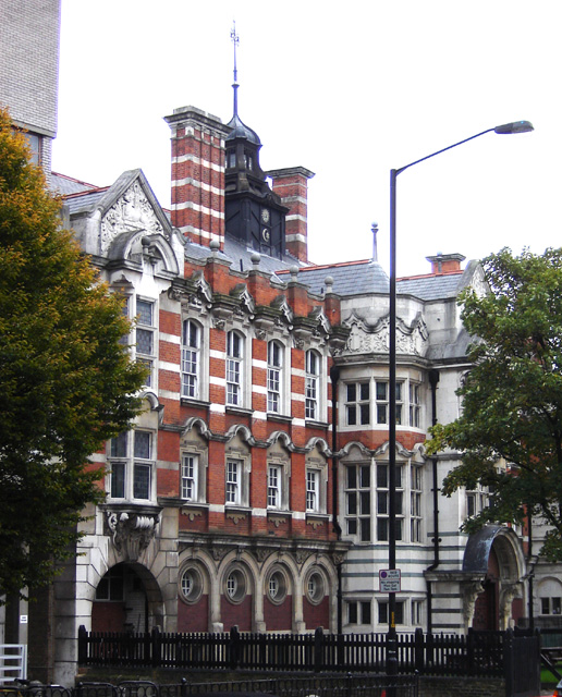 Camberwell Art College, Camberwell, Southwark, London. 29 October 2005. Photographer: Fin Fahey